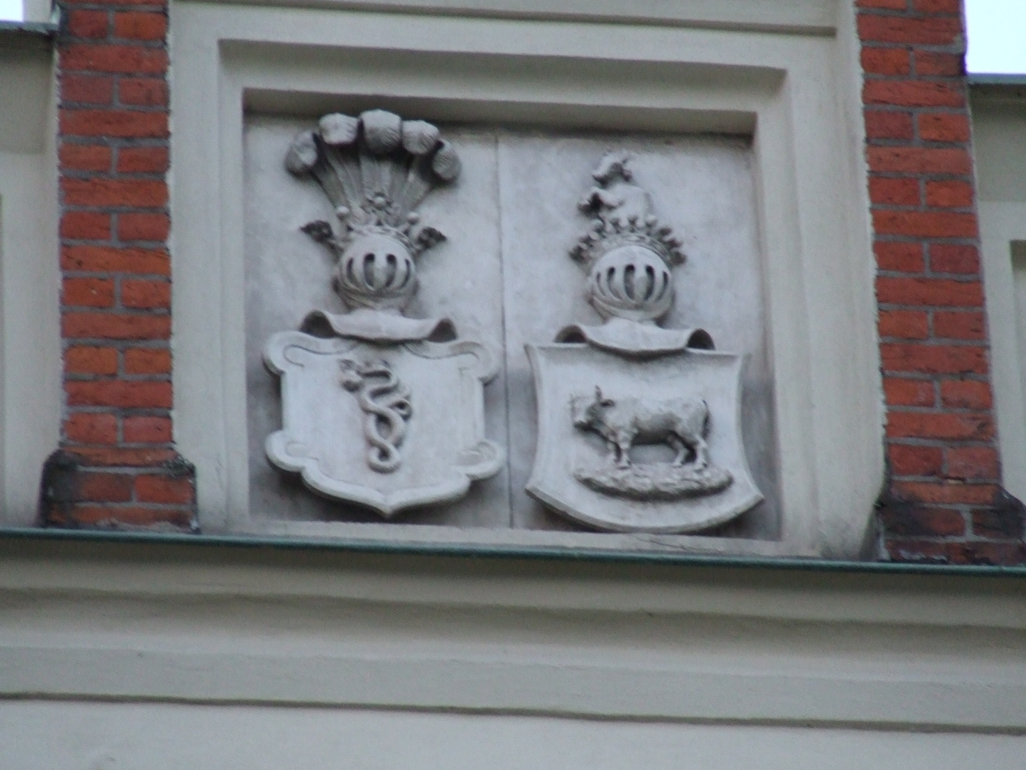 The palace in Paszkówka